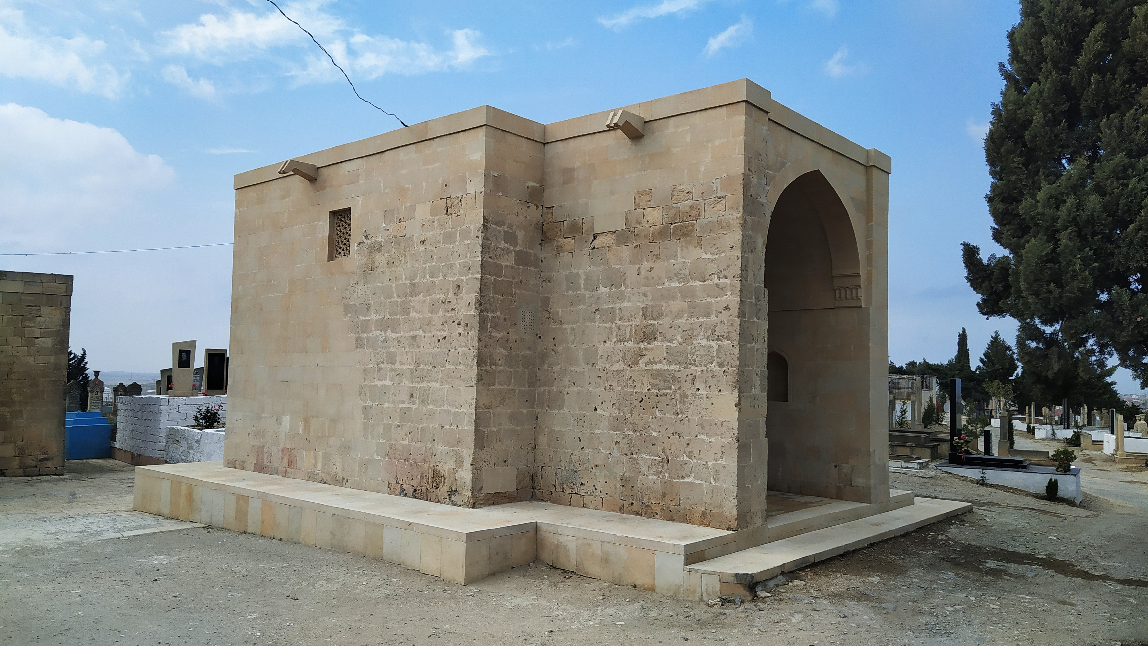 Haji Shahla mosque is a historical mosque of the XIV century. It is located in Balakhany village in the city of Baku in Azerbaijan. The mosque was built at area of Balakhany Cemetery, on a high hill in 1385-1386.